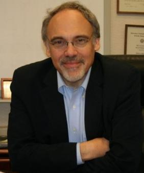 Dr. Irwin Redlener in his office